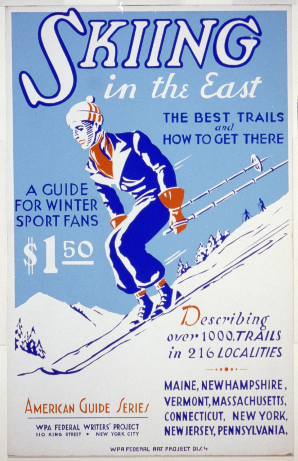 Title: Skiing in the East Abstract: Poster for WPA Federal Writers' Project, 110 King Street, New York City, "American Guide Series" guide to winter sports in the East (from Pennsylvania to Maine), showing a man skiing. Physical description: 1 print on board (poster) : silkscreen, color. Notes: Work Projects Administration Poster Collection (Library of Congress).; Date stamped on verso: Feb 2 1939.